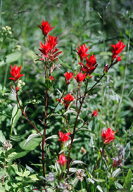 Paintbrush (castille ja spp.) is a member of the figwort family and is likely one of the best-known and most widespread wildflowers in the Canadian Rockies. It grows well in meadows from montane levels to above timberline. Most commonly orange-red to red in color, it also occurs in yellow and purple variants. Two features distinguish it from other typical wildflowers. It is the bracts of this wildflower and not the petals (which are green) which bear the color. As well, paintbrush is a parasitic plant, enmeshing its roots with those of other plants and stealing their nutrients. Ø2004 D. Windrim Captioned As {}